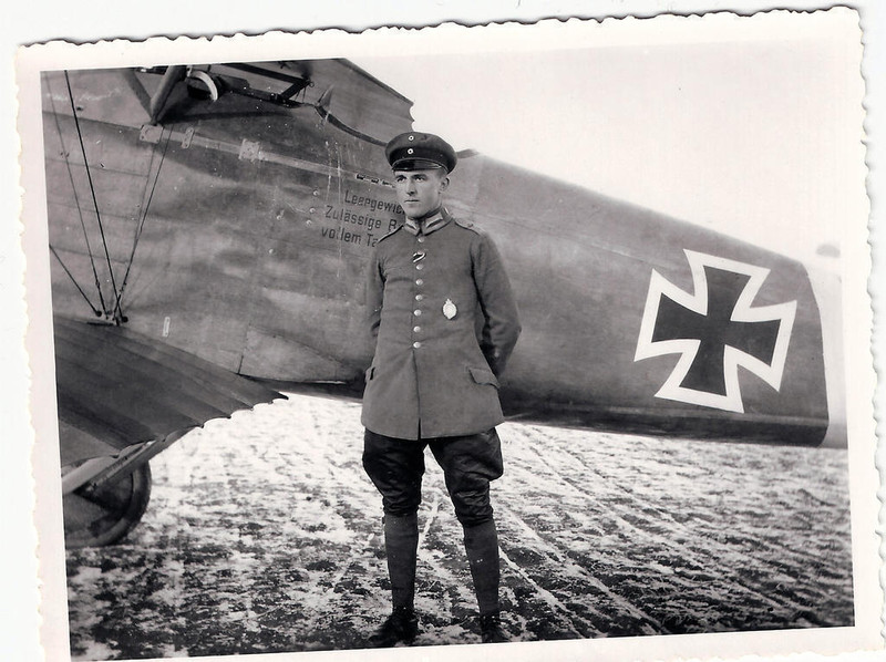 Dietrich (Derk) Averes in front of his Fokker D VII on September 15, 1917